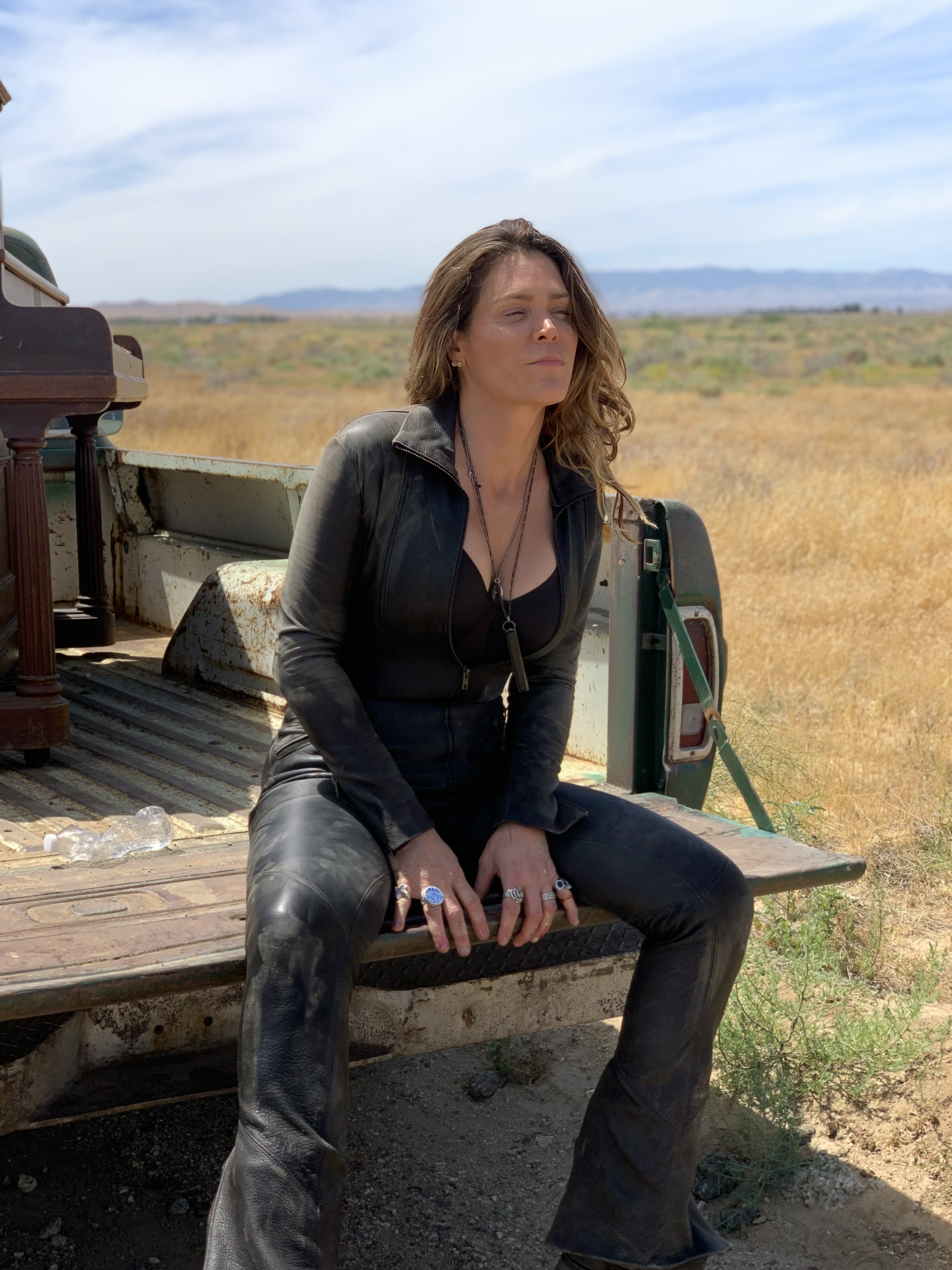 Beth Hart in the desert of Lancaster, CA